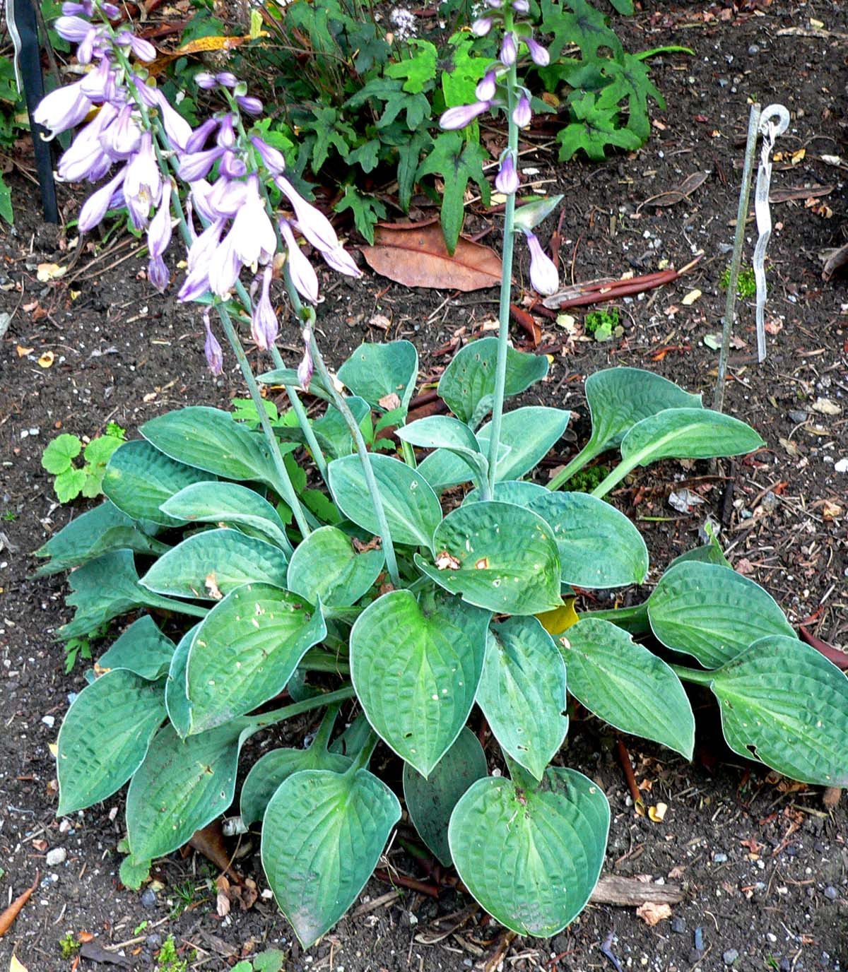 Photo of Hosta 'Abiqua Blue Crinkles' at the VanDusen Botanical Garden in Vancouver